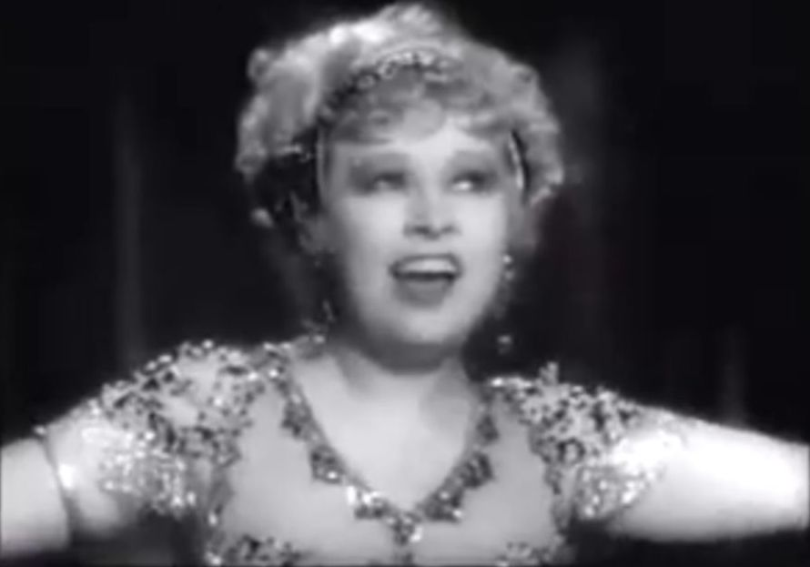 Screenshot of Mae West from the trailer for the film I'm No Angel